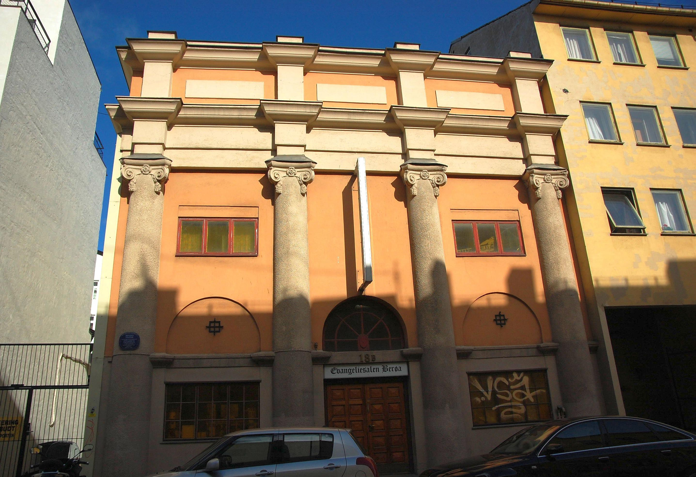 Regina teater - architect Harald Aars.